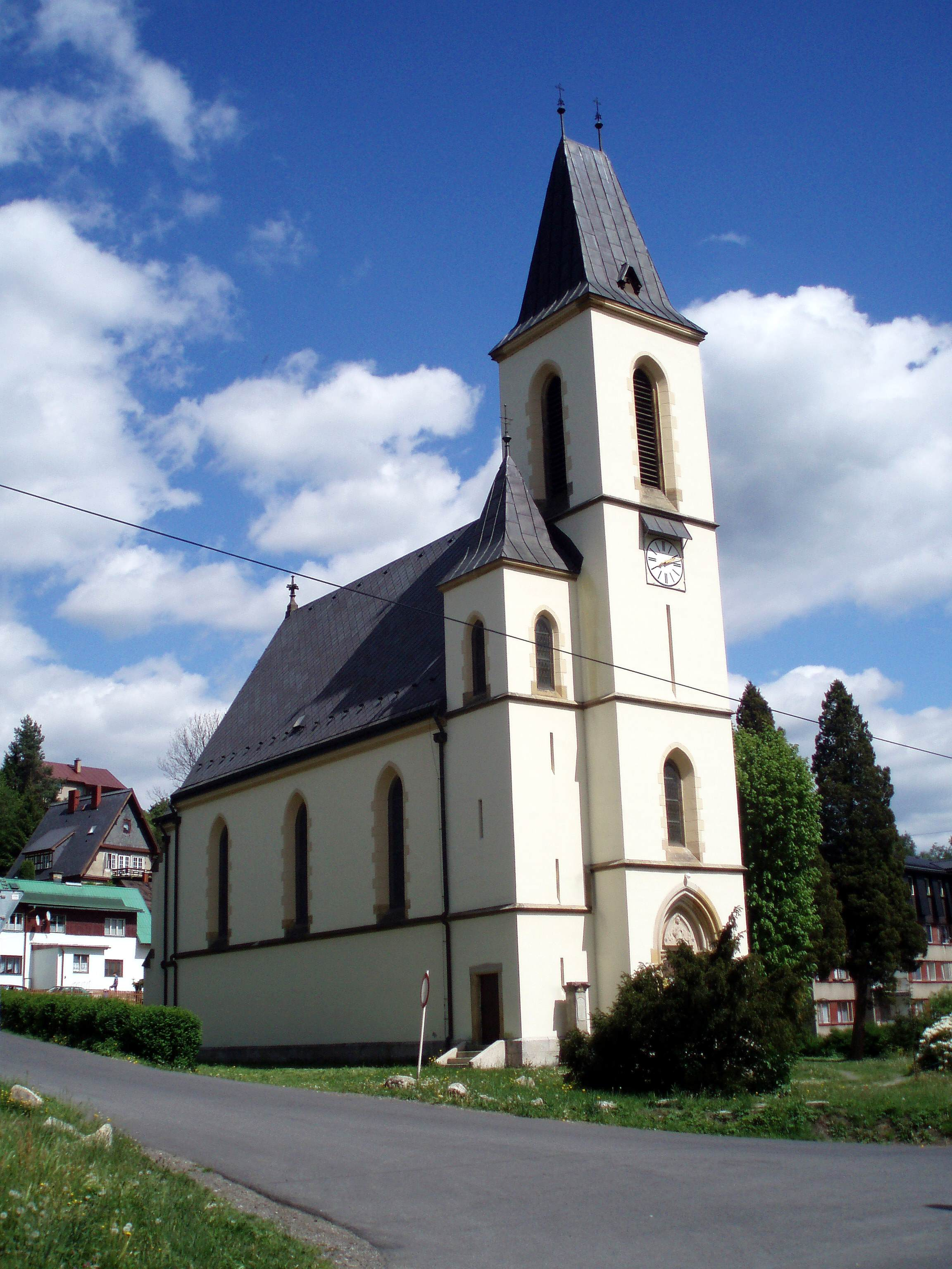 Roman Catholic church of the Assumption of Virgin Mary in Desná